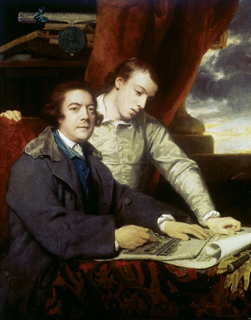 Double portrait of James Paine the elder and his son James Paine the younger. They are examining architectural plans for Worksop Manor.